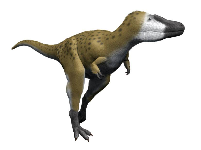 Restoration of Nanotyrannus lancensis.